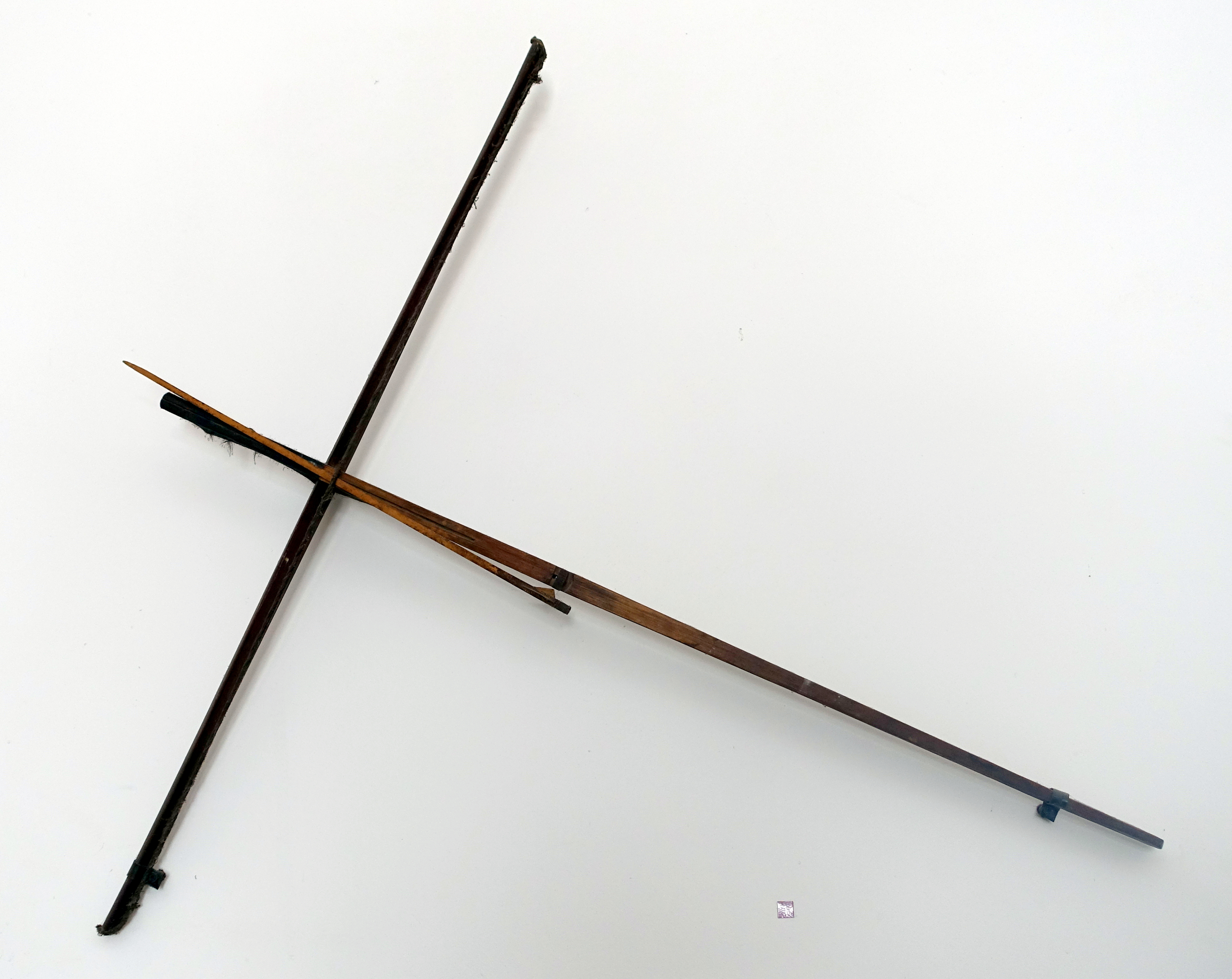 Exhibit in the Vietnam Museum of Ethnology - Hanoi, Vietnam.